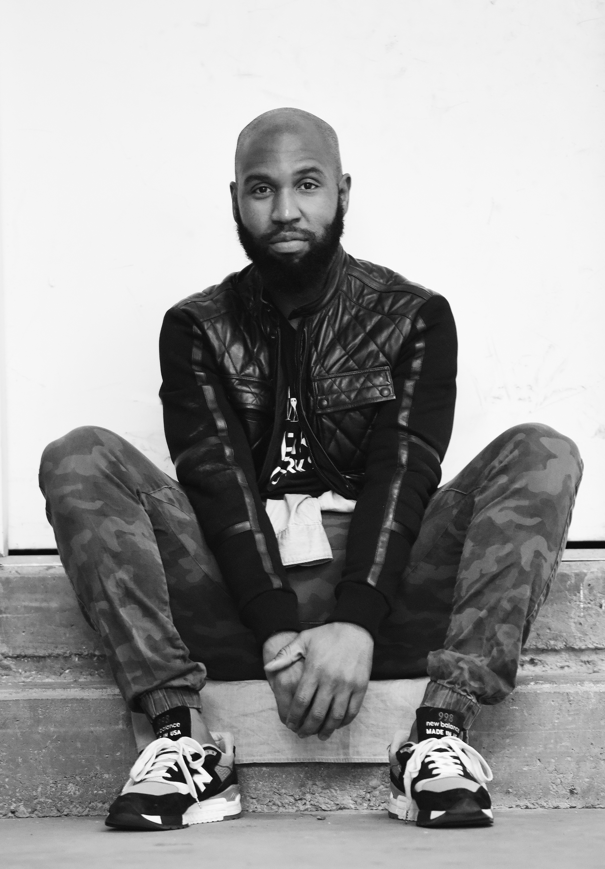 A 2015 photo of American singer, songwriter and music producer Claude Kelly.